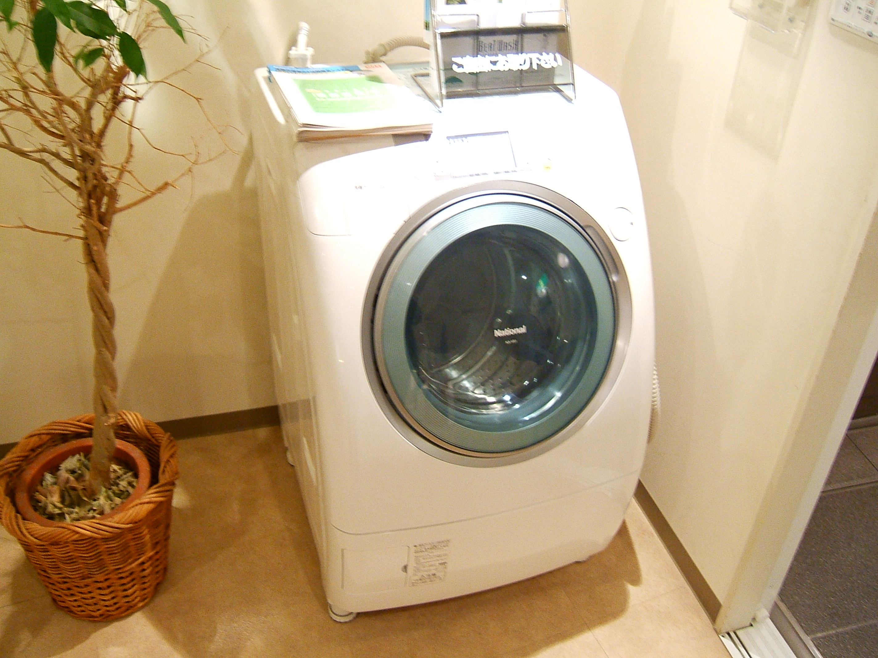 Japanese washing machine